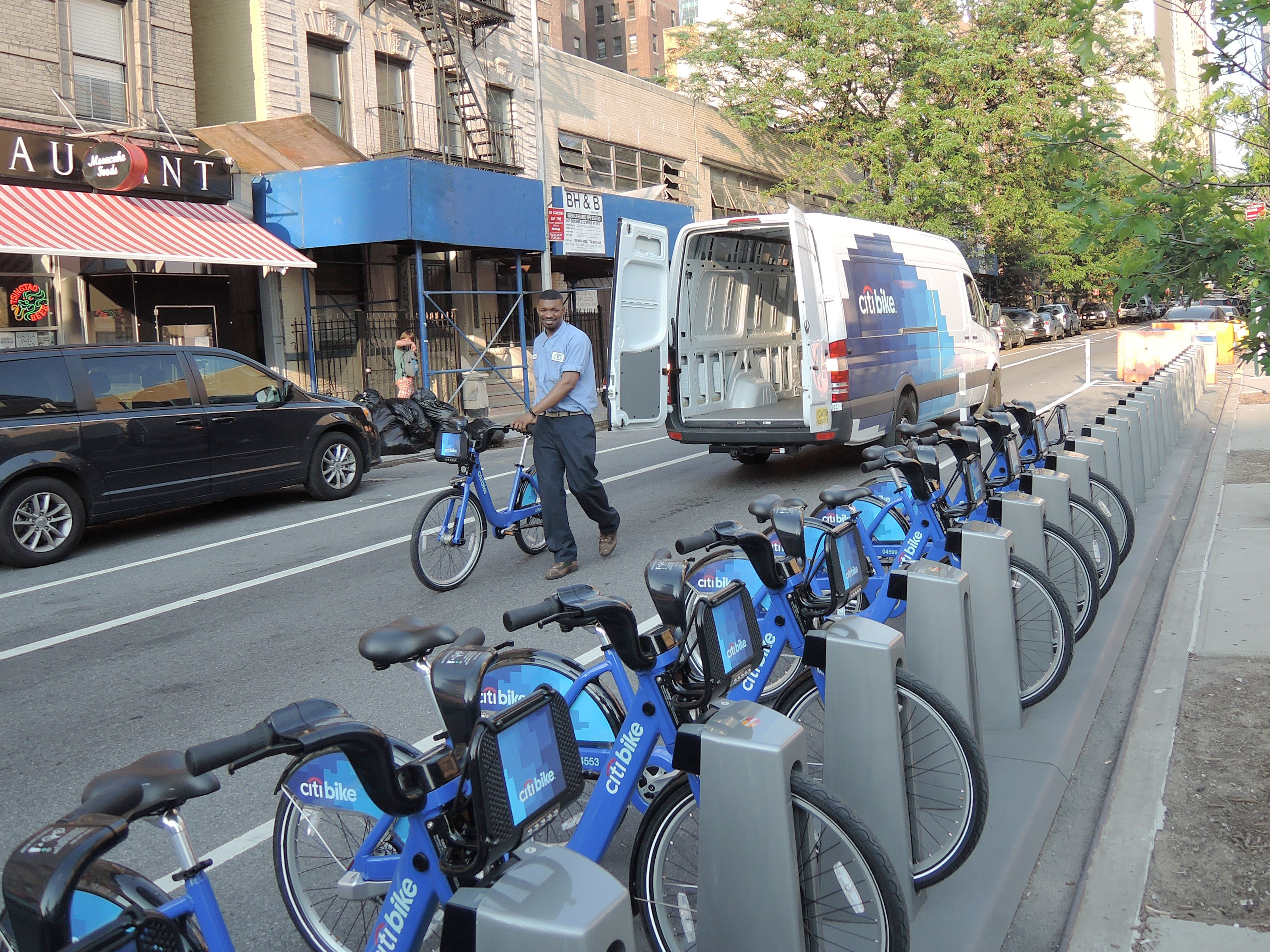 Looking east at bike delivery on a sunny afternoon.